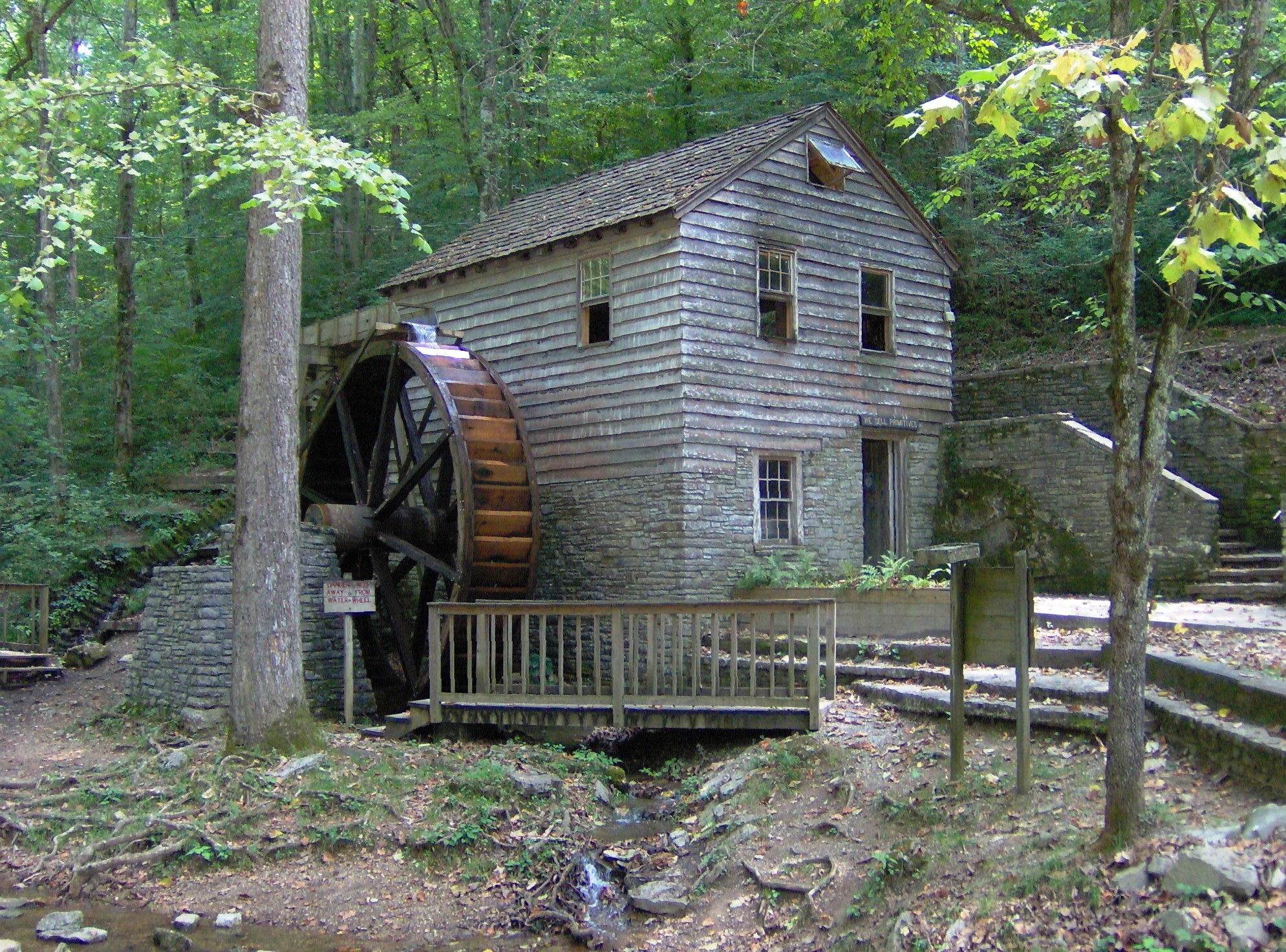 The James Rice Gristmill at the Lenoir Museum Cultural Complex in Anderson County, Tennessee, in the southeastern United States. The museum complex is managed by Norris Dam State Park. The mill was built in 1798 in what is now Union County and refurbished several times throughout the 1800s. The Civilian Conservation Corps moved the mill to its current location in 1935.